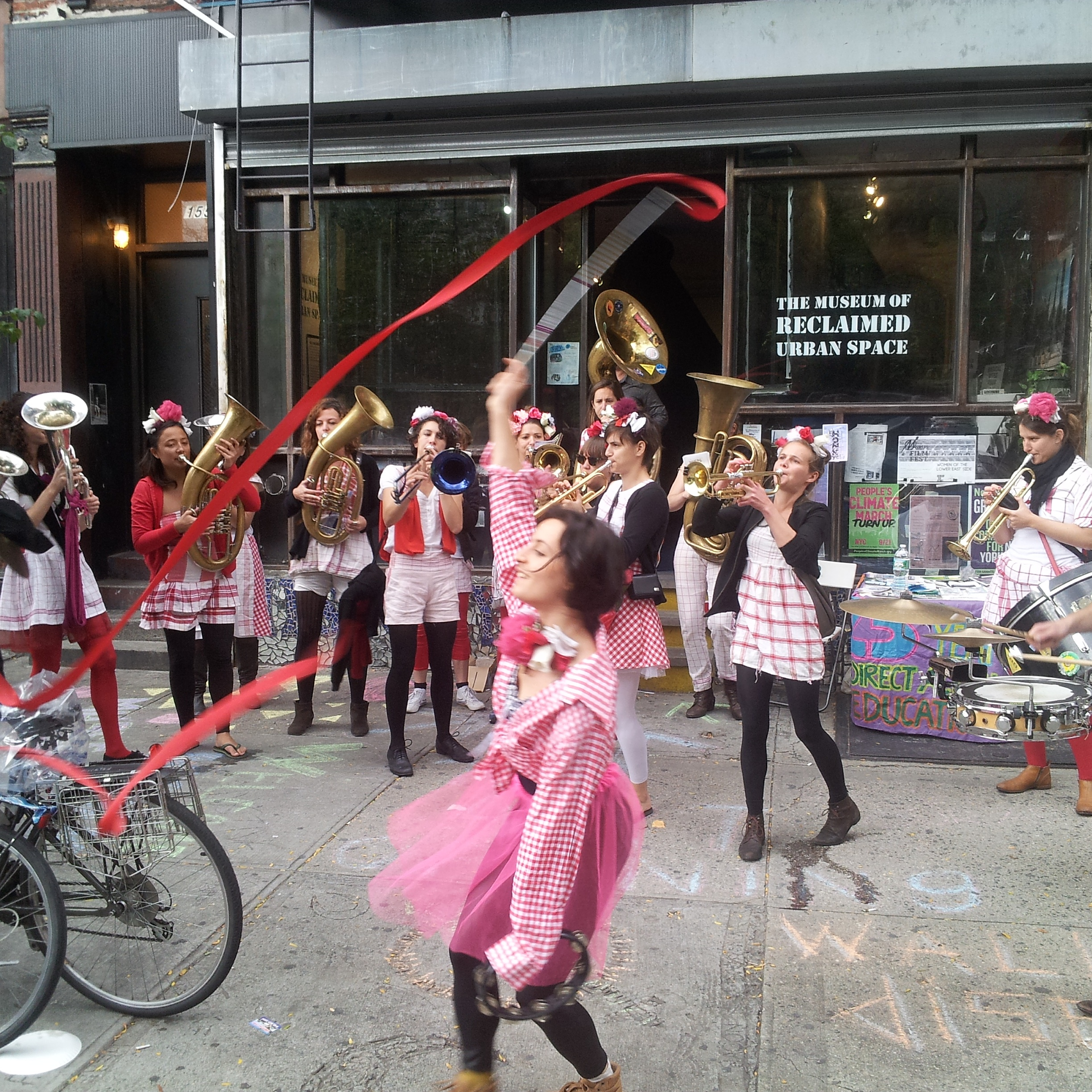 In this image, the French marching band performs in front of MoRUS.